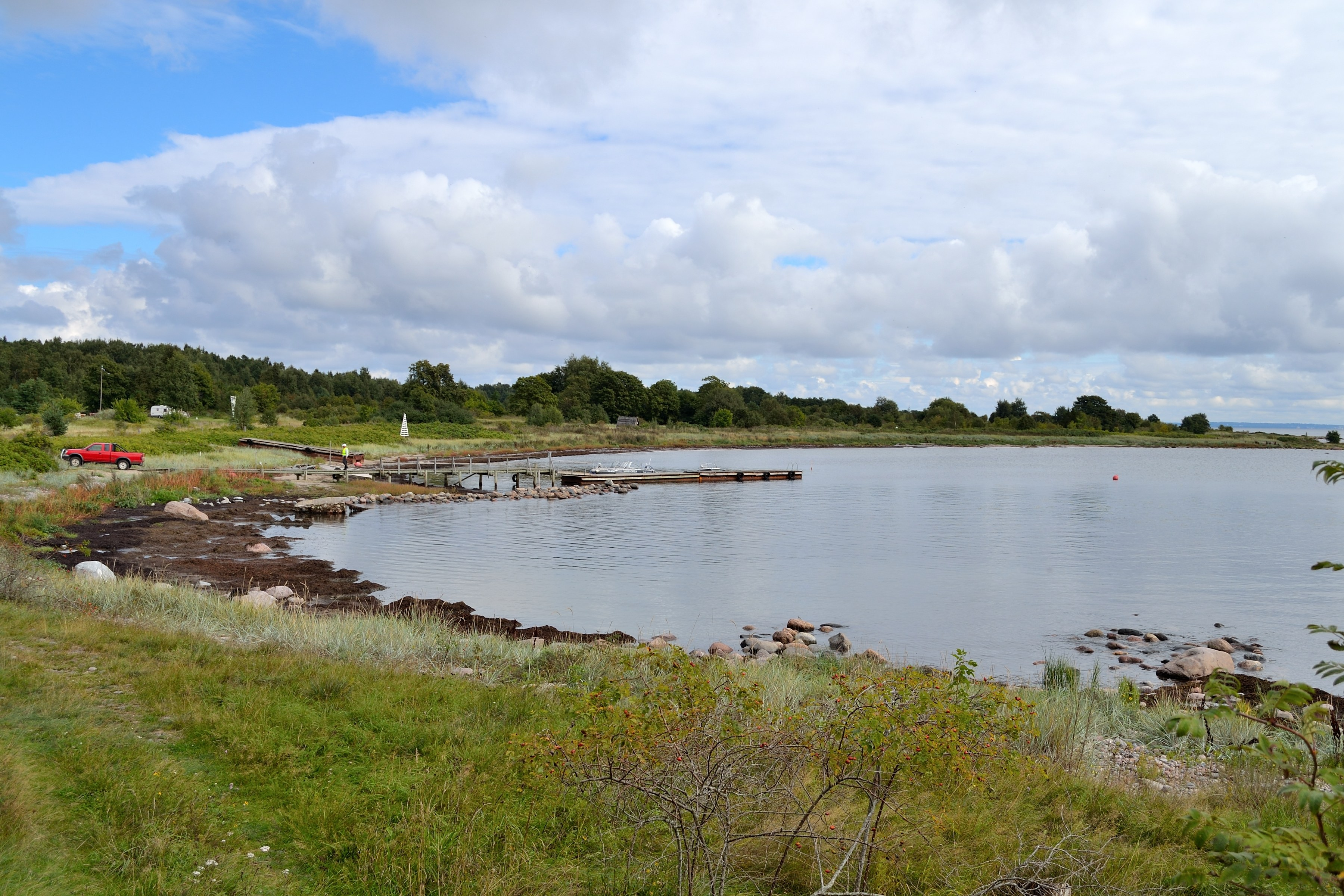 Little boat harbour on south coast of island Naissaar